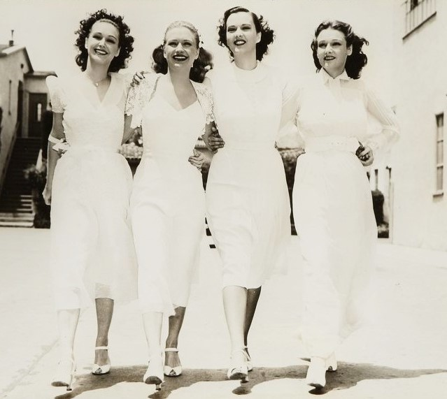 An original studio photo of the 1938 film Four Daughters, with Priscilla Lane, Rosemary Lane, Lola Lane and Gale Page.